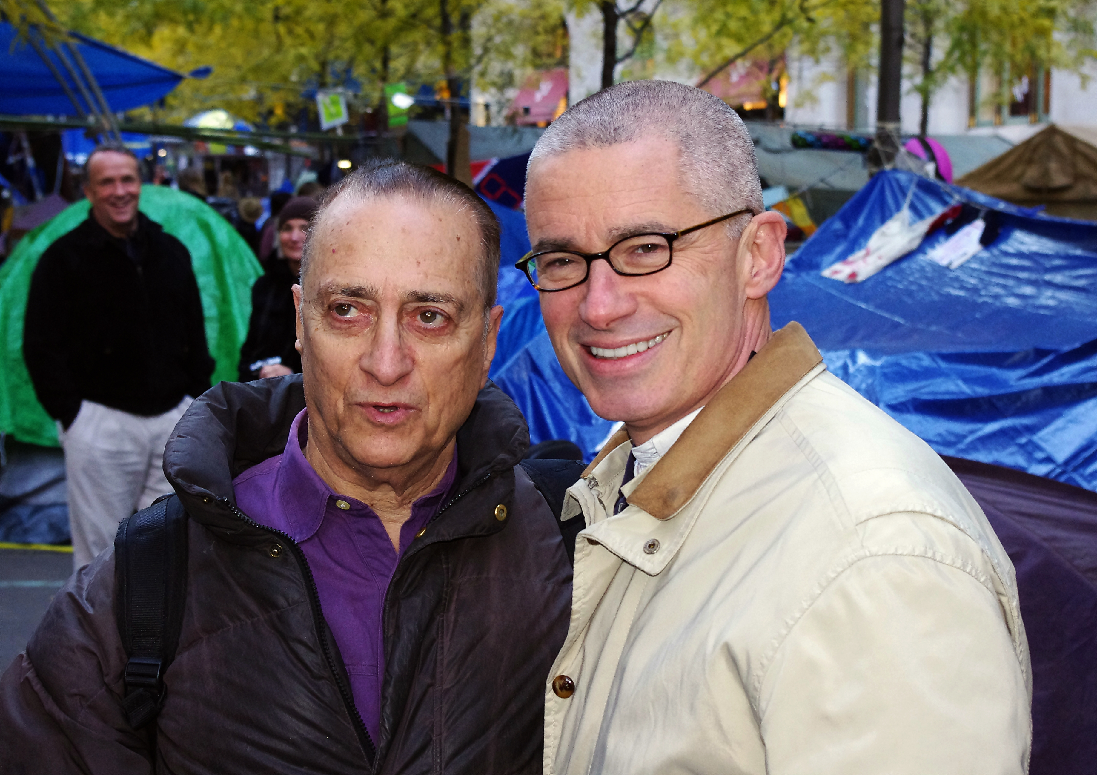 Radio show host David Rothenberg with former New Jersey Governor Jim McGreevey at Occupy Wall Street